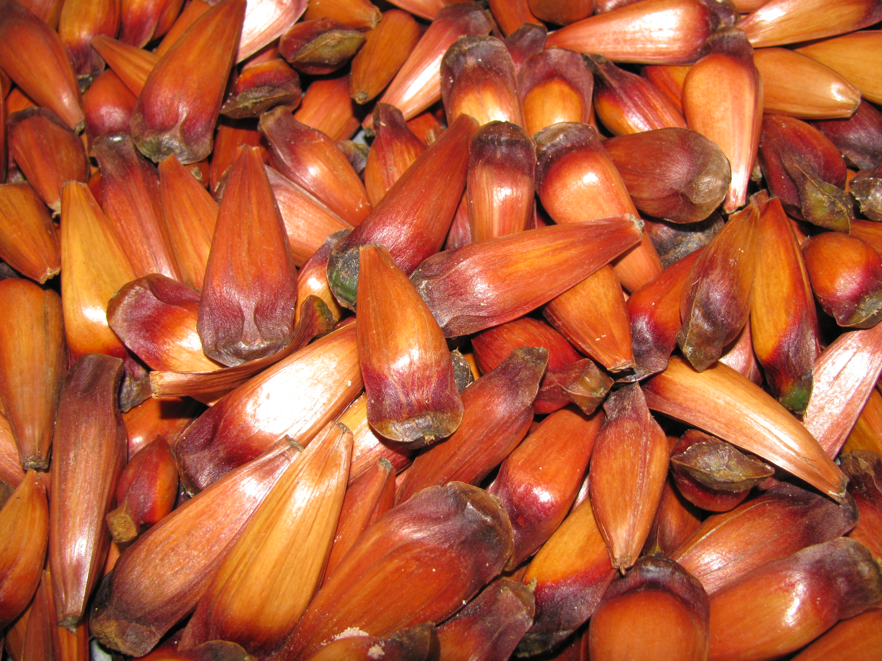 Araucaria angustifolia seeds. Curitiba, Brazil.